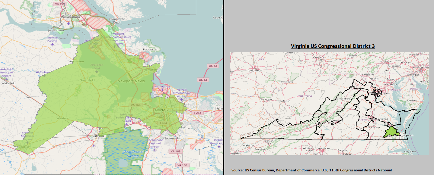 Boundaries for Virginia’s 3rd United States Federal Congressional District.